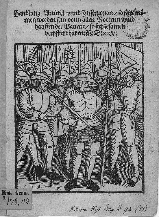 Title page of the Memmingen Articles of War drawn up in March 1525, during the German Peasants War. It shows armed peasants with an assortment of weaponry.